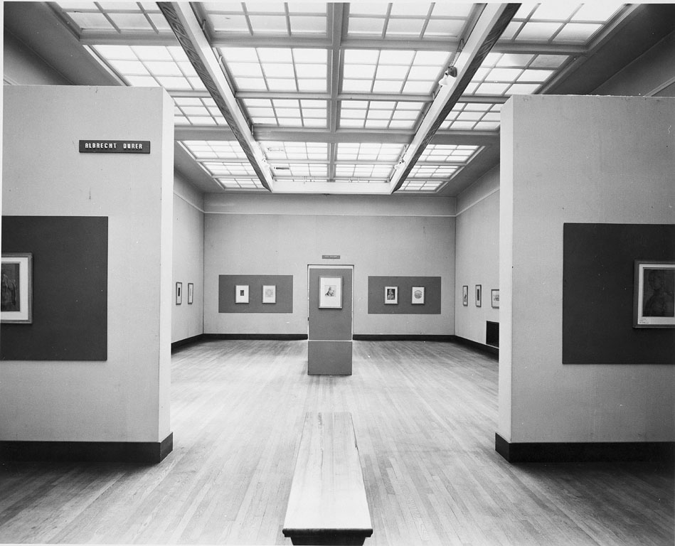 German drawings in the exhibition "Masterpieces from Five Centuries" which was circulated by the Smithsonian Institution Traveling Exhibition Service. Installation photo at the M. H. DeYoung Memorial Museum, Golden Gate Park, San Francisco, January 4, 1956.